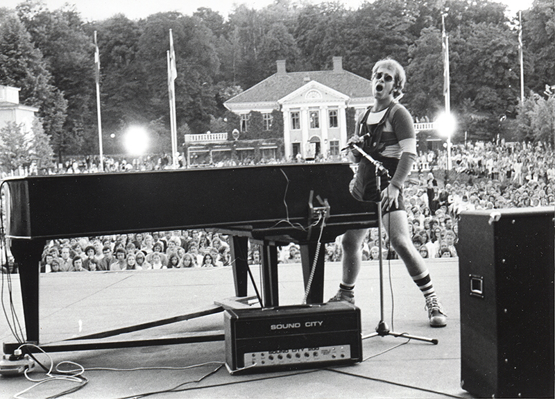 Elton John on stage, Live at Liseberg, 1971.